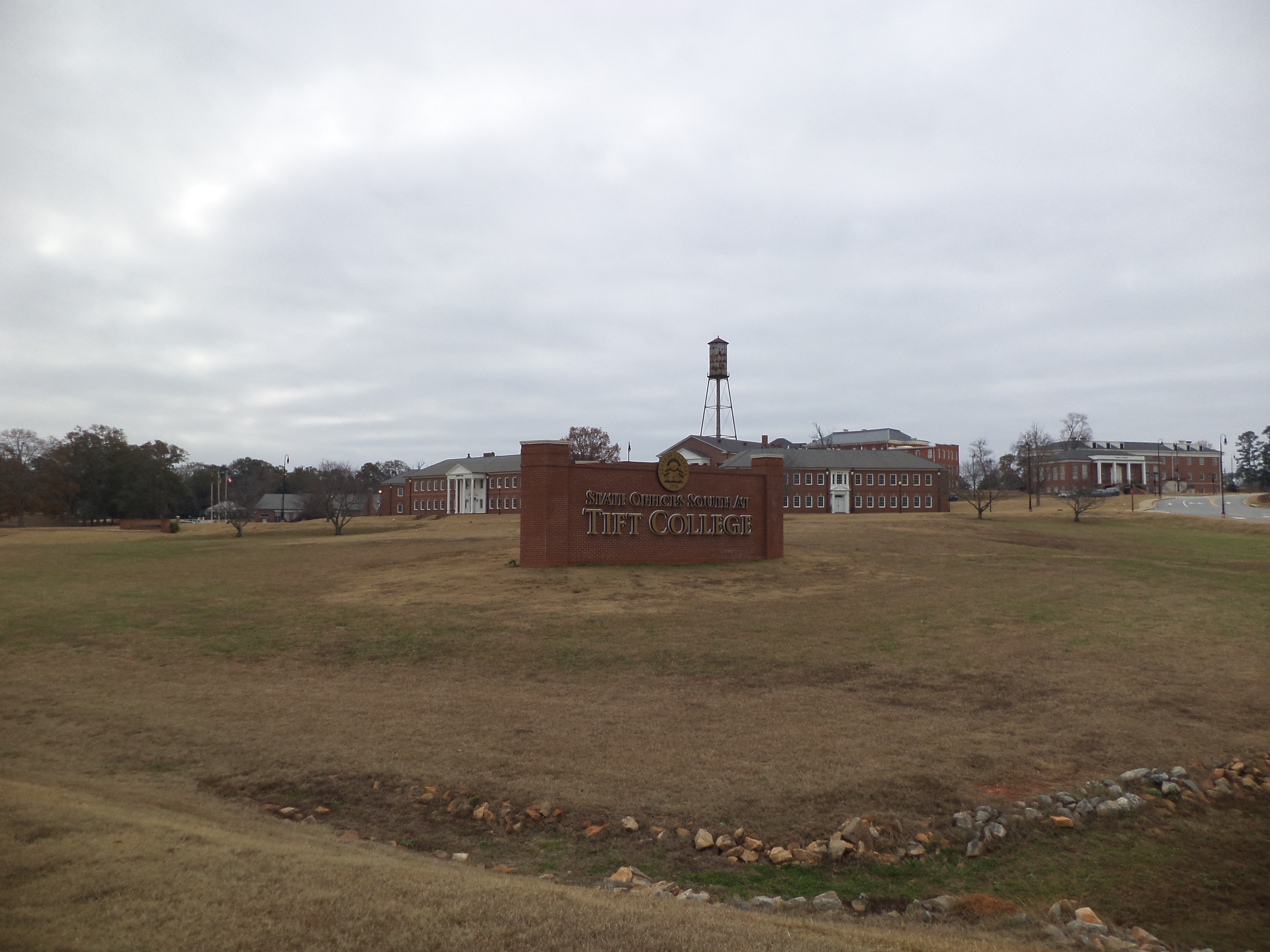 Tift College Forsyth, Monroe County, Georgia